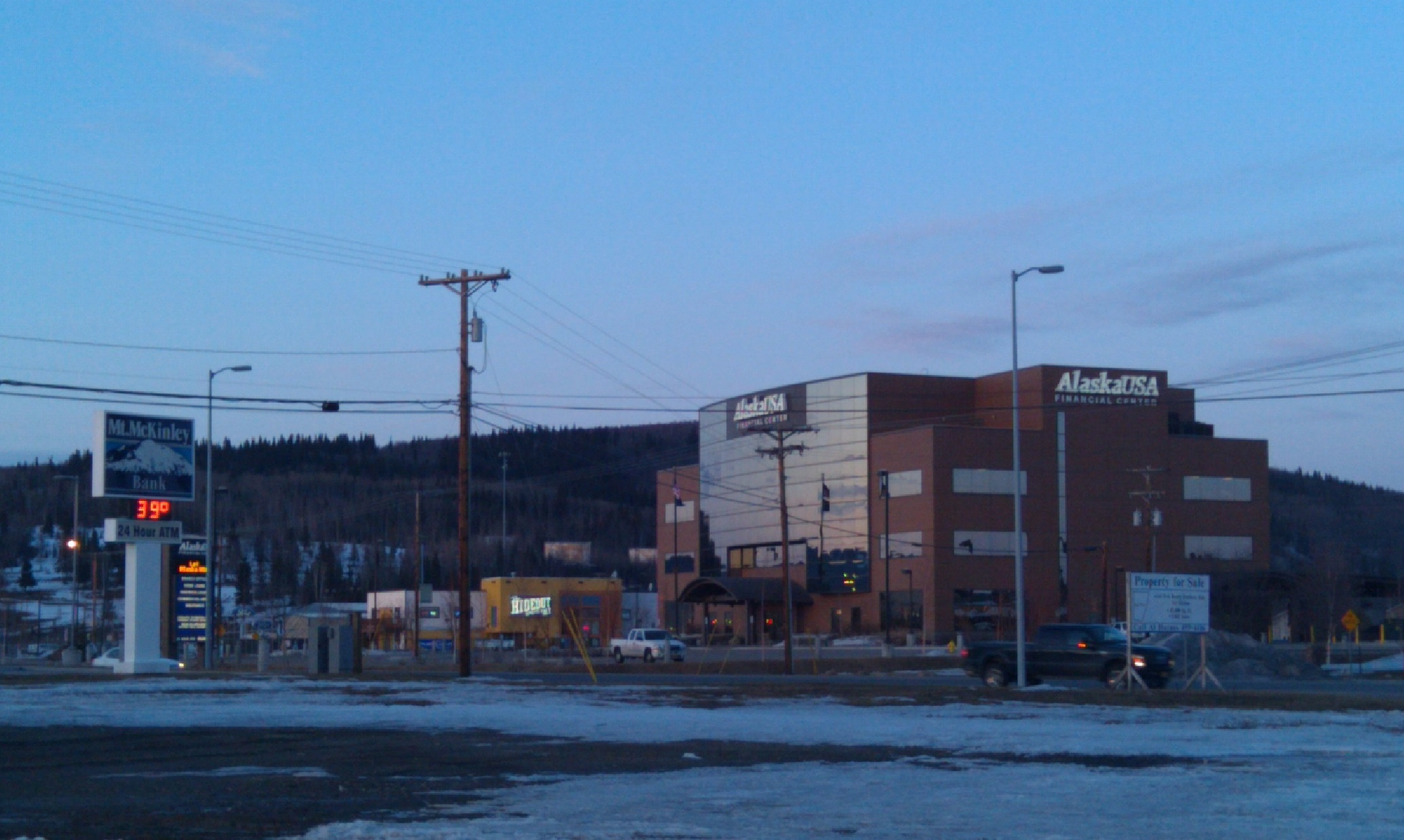 The Financial Services Center of the Alaska USA Federal Credit Union, located in Fairbanks, Alaska at 1292 Sadler Way in the main commercial district of Fairbanks. This building also houses the Fairbanks offices of the Alaska Legislature. Birch Hill is in the background.